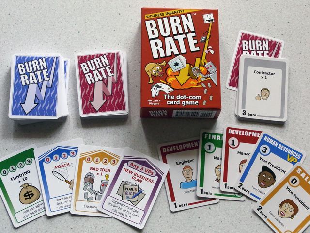 Burn Rate cards